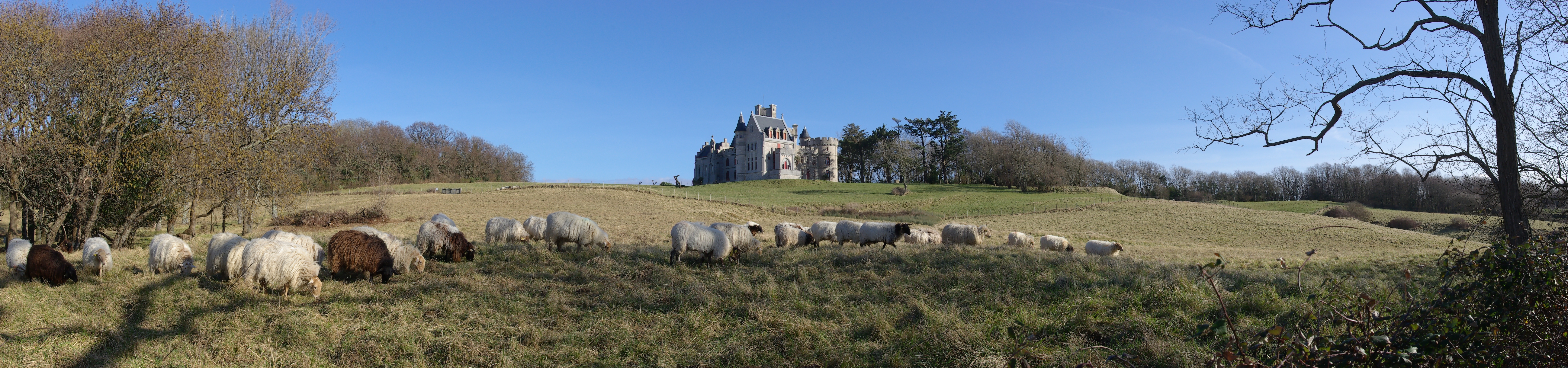 Abbadia domain : the castle and a flock of sheep. Hendaye, Pyrénées-Atlantiques, France.